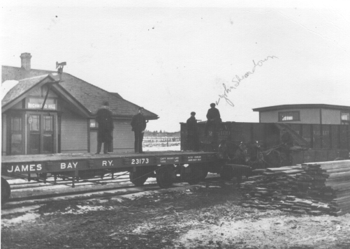 Richmond Hill Train Station on the CNR line